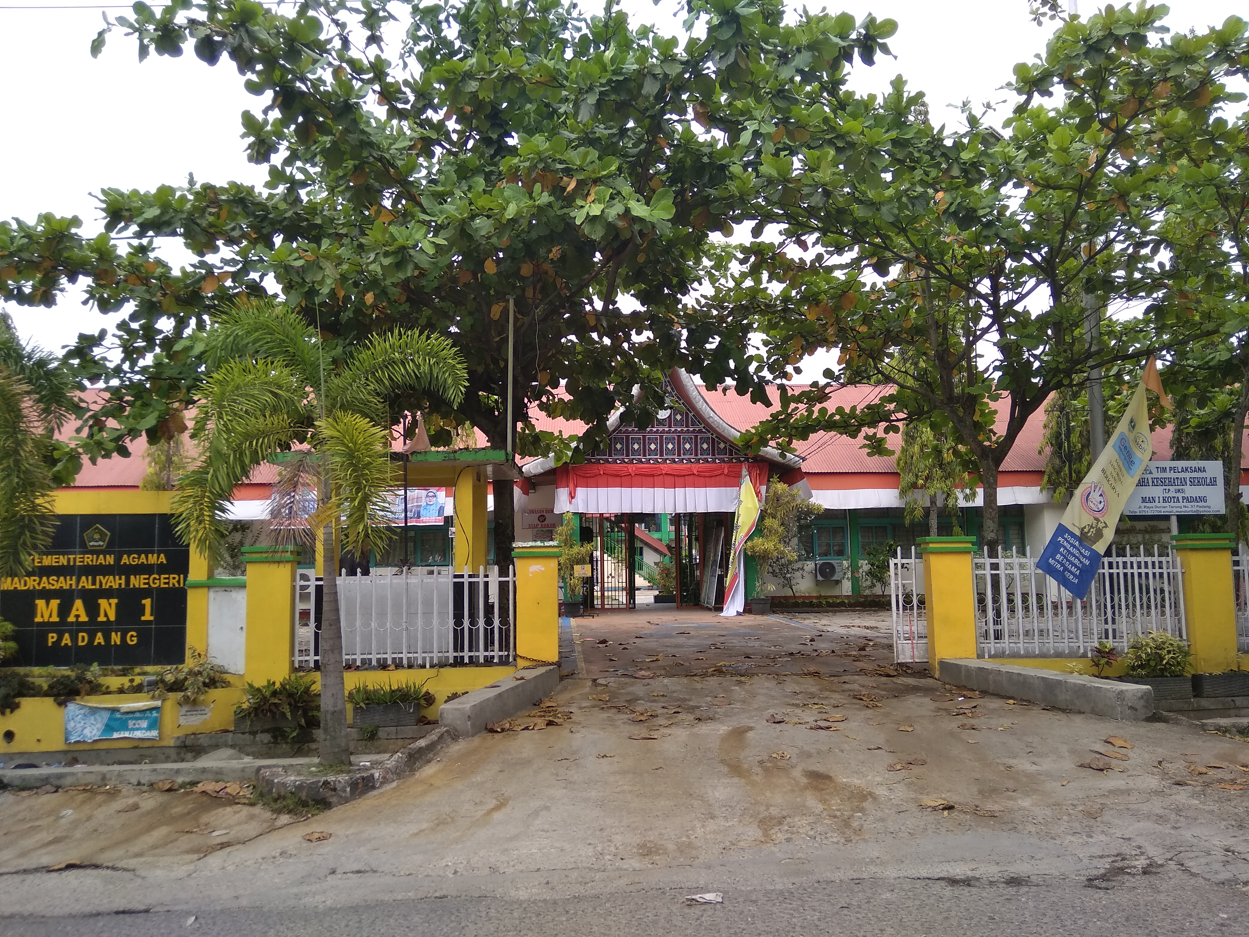 Padang State Madrasah Aliyah 1 is located on Durian Tarung street, Kuranji District, Padang City, West Sumatra, Indonesia.